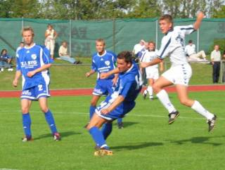 Nicolaj Christiansen scores his first goal for Værløse Boldklub 13. September 2003 on Stenløse Stadion.